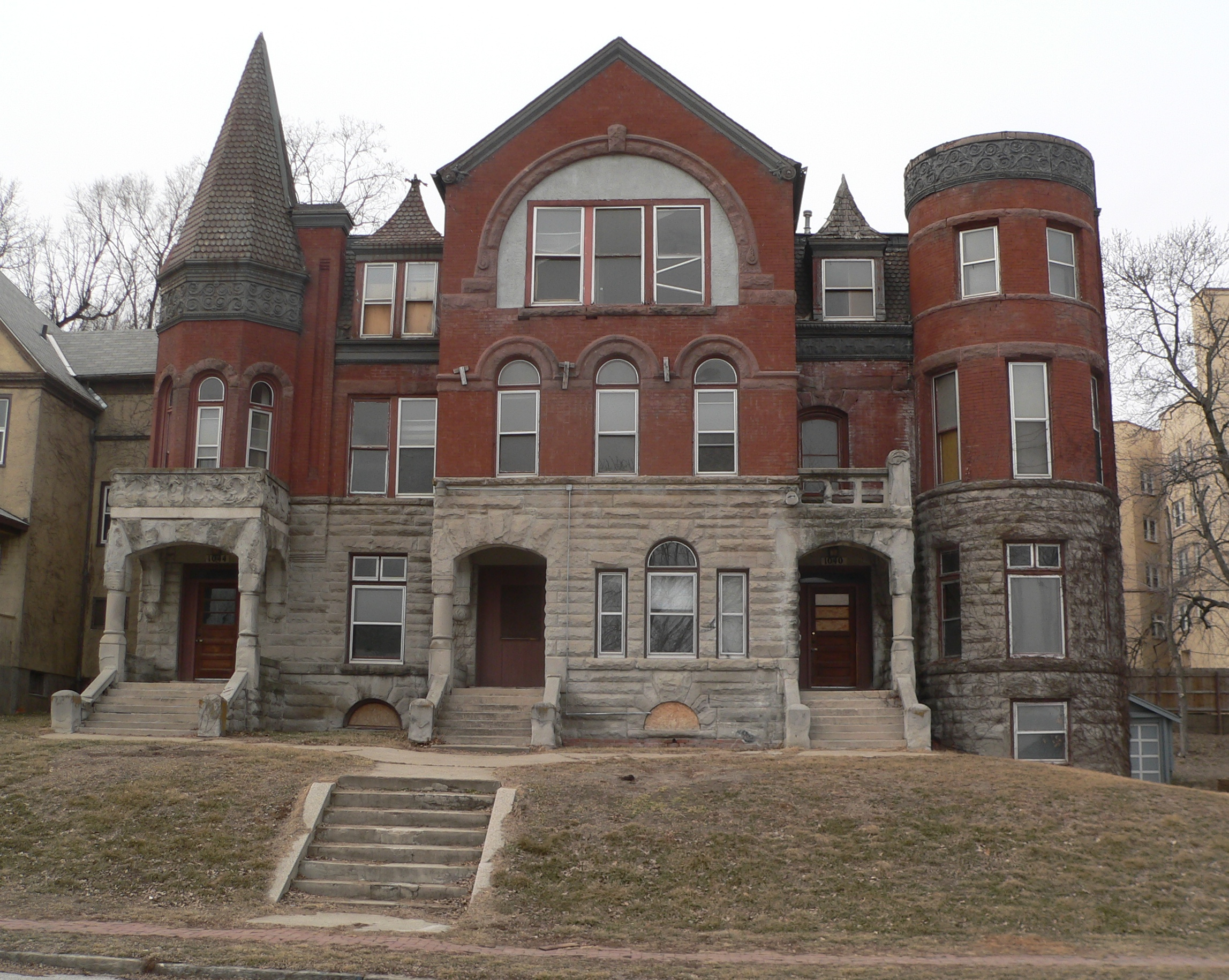 Georgia Row House, located at 1040-1044 S. 29th Street (west side of 29th between Mason and Pacific) in Omaha, Nebraska; seen from the east.